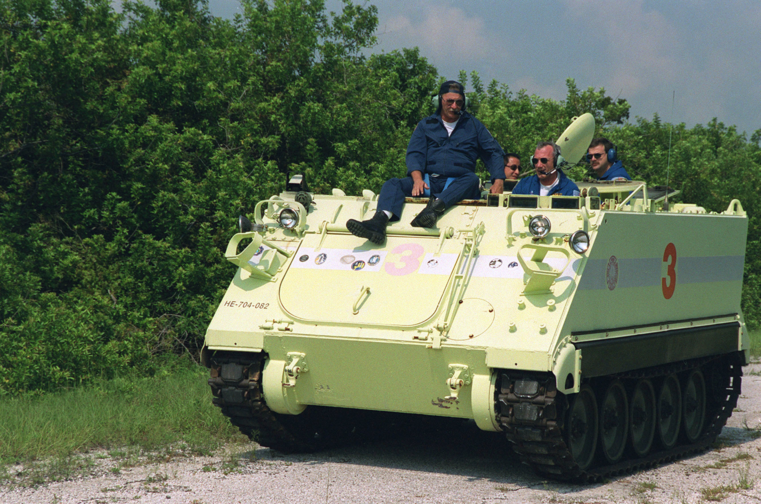 Description: Capt. George Hoggard, trainer with the KSC Fire Department, oversees STS-106 Commander Terrence W. Wilcutt as he the practices driving the small armored personnel carrier that is part of emergency egress training. Behind Hoggard and Wilcutt are Mission Specialist Edward T. Lu and Pilot Scott D. Altman. They and the rest of the crew are taking part in Terminal Countdown Demonstration Test (TCDT) activities. The tracked vehicle could be used by the crew in the event of an emergency at the pad during which the crew must make a quick exit from the area. Remark: M113 armored personnel carrier. Photo Number: KSC-00PP-1135 Release Date: 16-Aug-2000